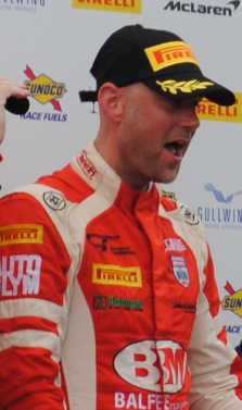 Bell on the podium after winning the final round of the British GT Championship with Shaun Balfe.